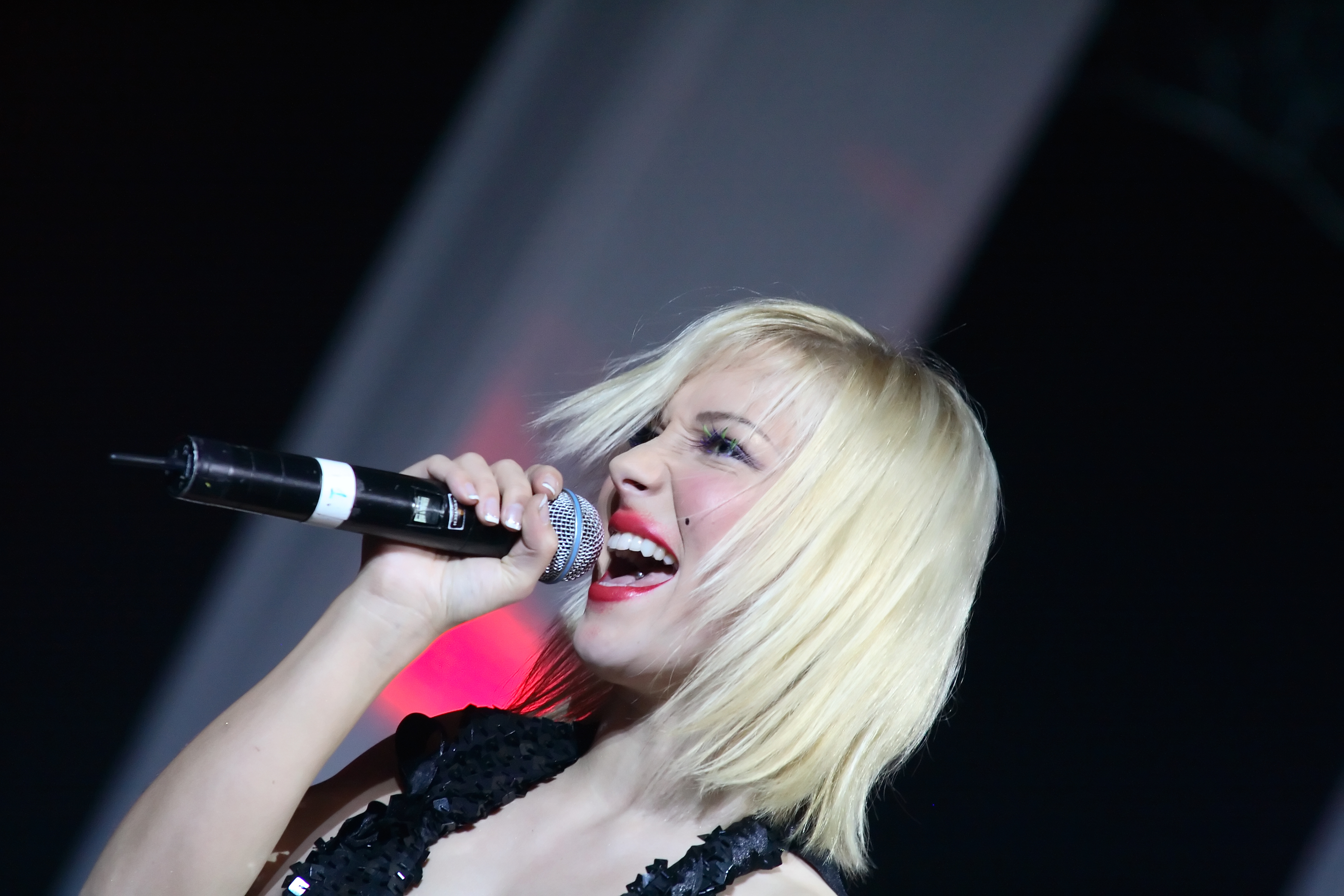 Estonian singer Lenna Kuurmaa performing live @ "Raadio 2 Hit Of The Year" (Part of a special "Dream Band")